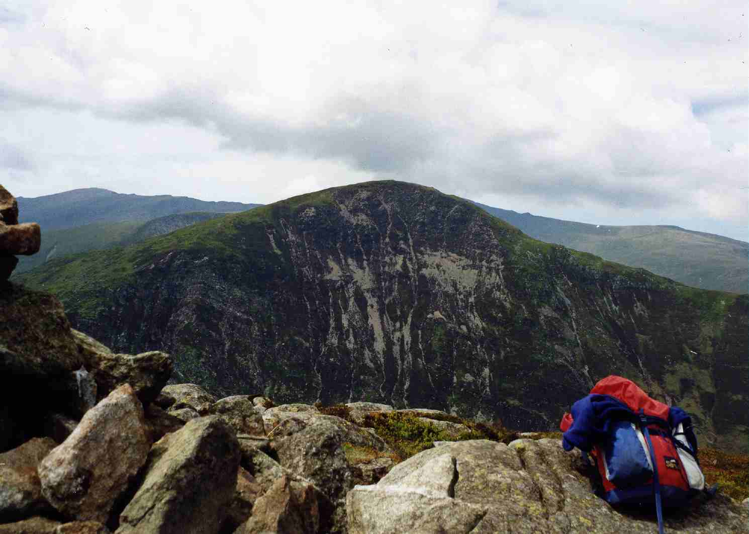 Personal photograph taken by Mick Knapton in May 1991